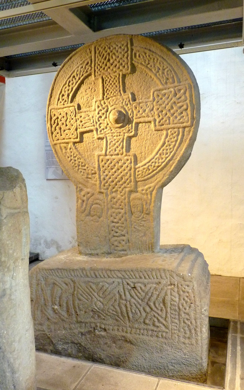 The largest of the Margam Stones - a huge stone wheel, shaft and pedestal. Two inscriptions. 'Conbelin erected this cross for the soul of Ric...', and 'Sodna made this cross'. It is now in the Margam Stones Museum.